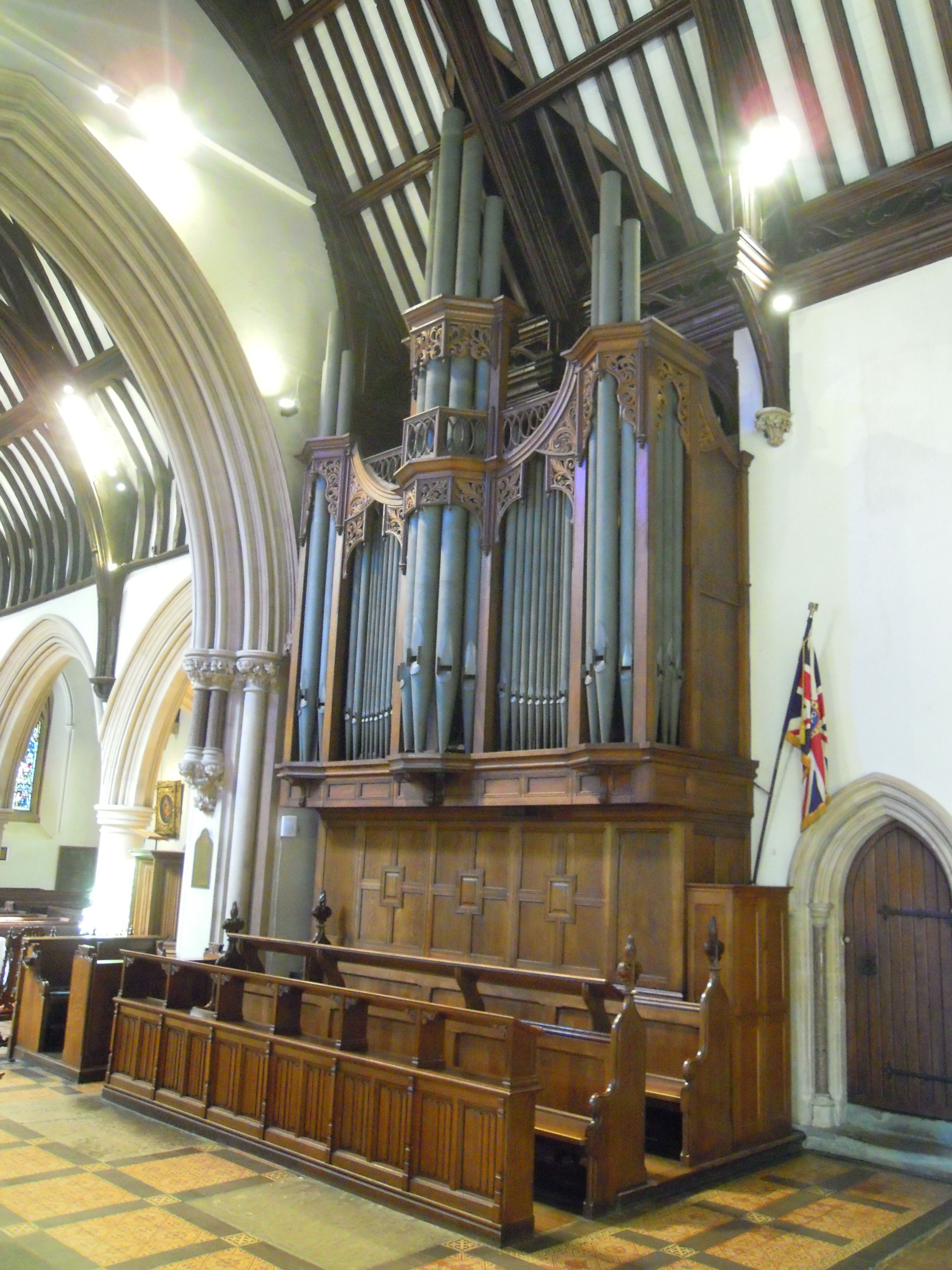 The Organ in Reading Minster was built in 1862